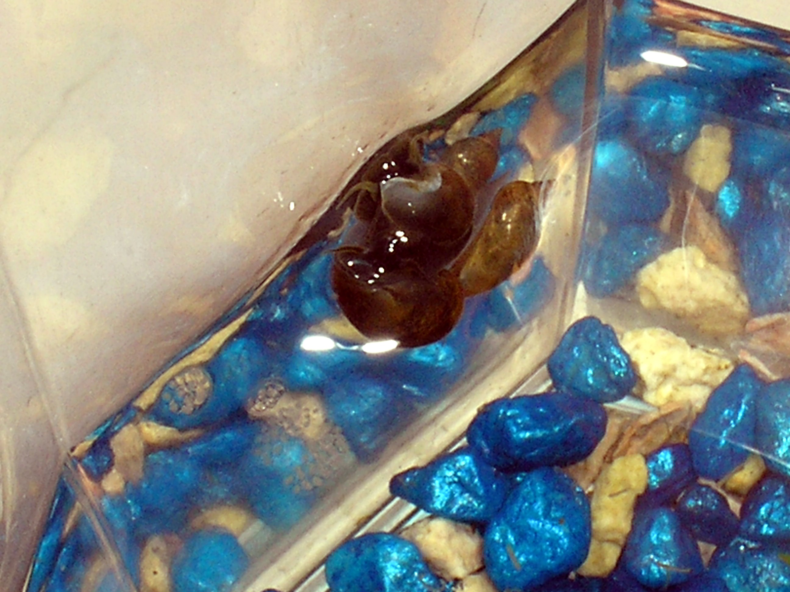 This photo show a group of aquatic snails mating.